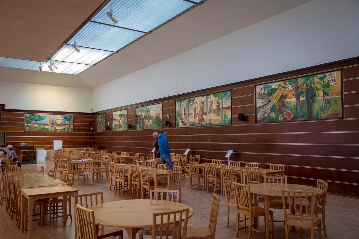 From the Freia hall at Freia chocolate factory in Rodeløkka, Oslo. The photo was taken under Open house 2018.